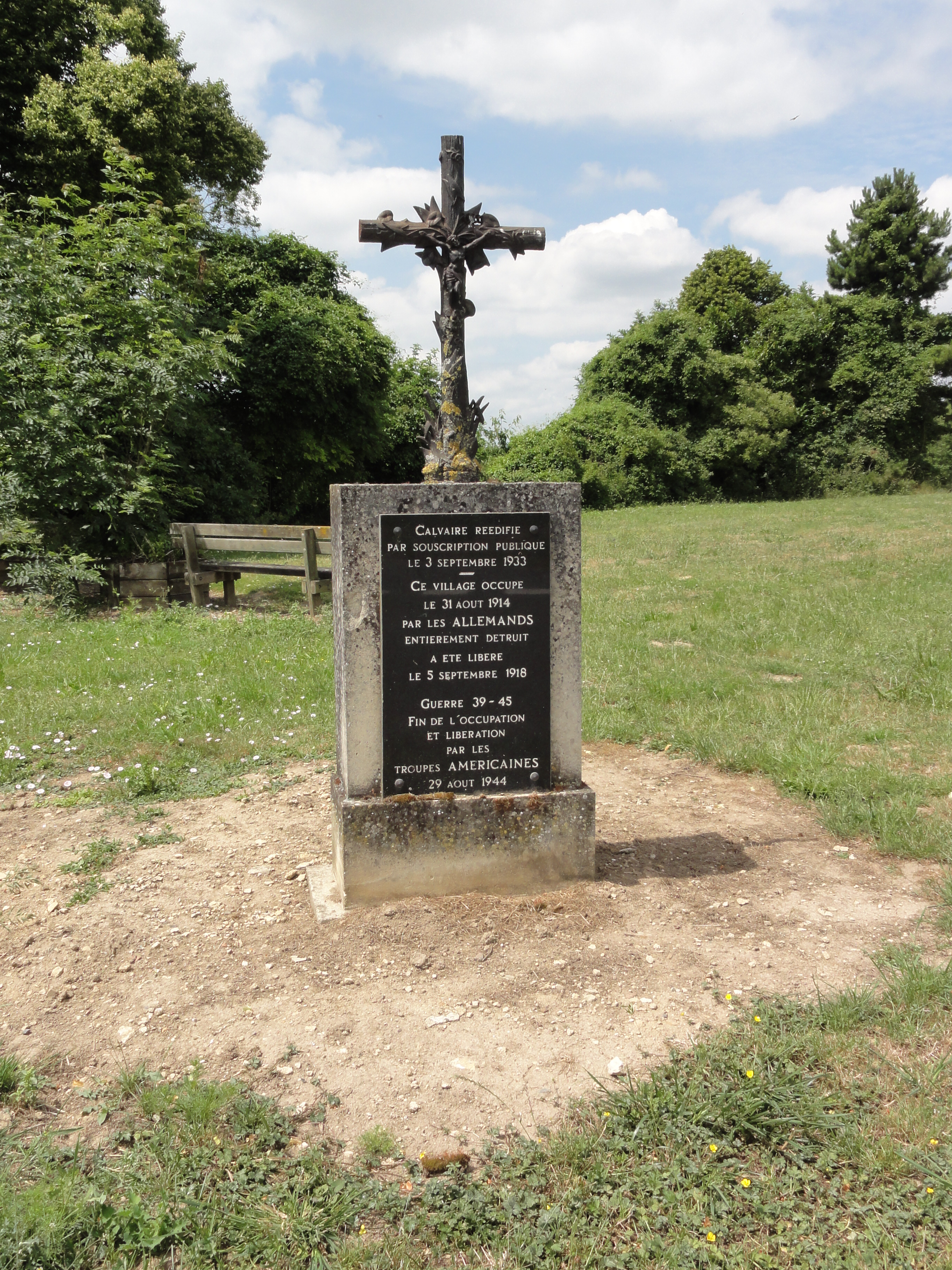 Neuville-sur-Margival (Aisne) croix de chemin, mémorial de guerre